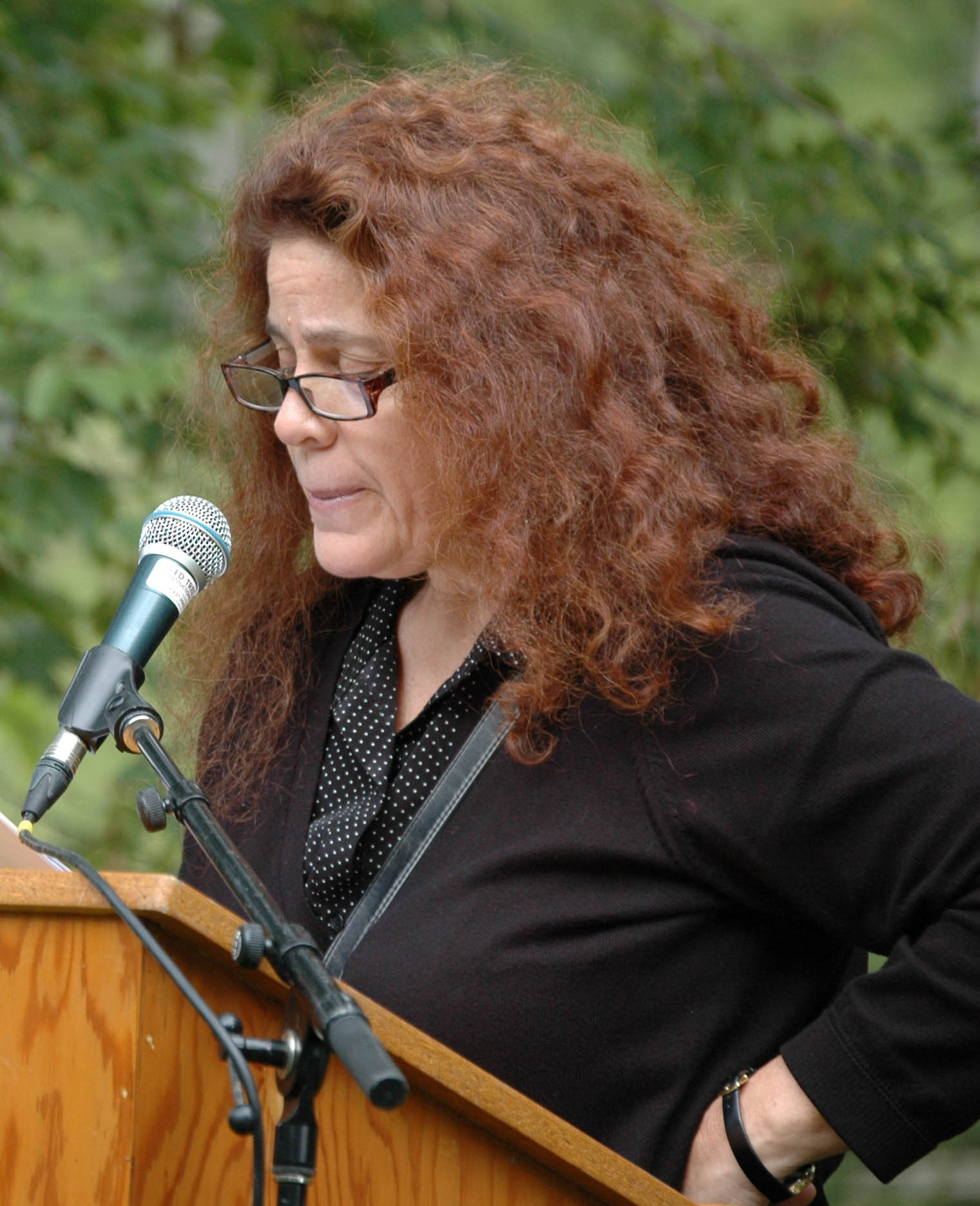 Anne Michaels at the Eden Mills Writers Festival in 2013